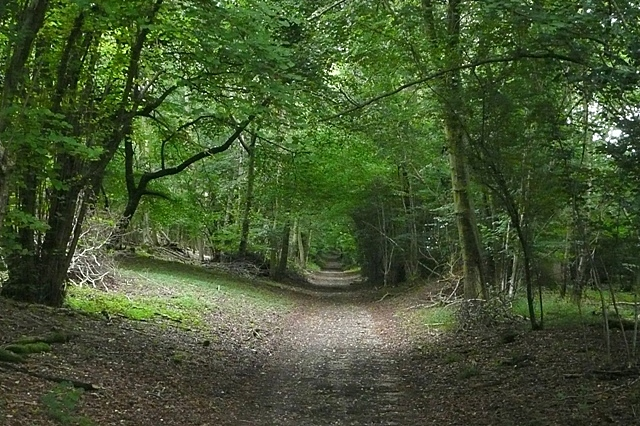 Roman road towards Middle Winterslow, The Common, Wiltshire, Great Britain. This is part of the Roman road from Winchester (Venta) to Old Sarum (Sorviodvnvm), which can be traced for most of its length. Here it survives as a byway approaching Middle Winterslow and is part of the route of both the Monarch's Way and Clarendon Way long distance paths.